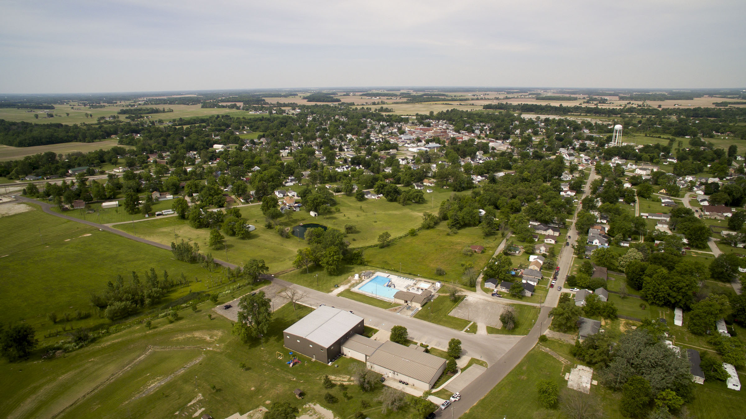 The city of Dunkirk, Indiana is pictured from the air from the city park on Saturday, June 10, 2017. (Photo by James Brosher)